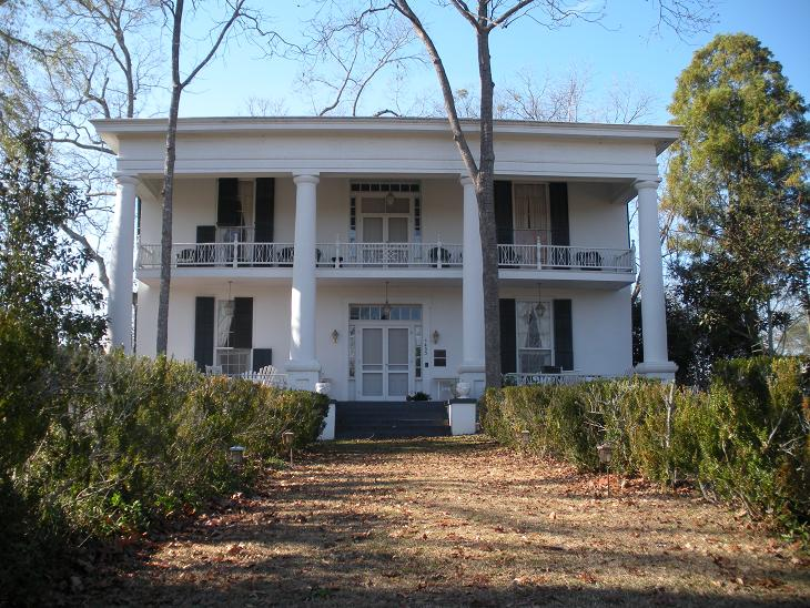 This is a photo of Noble Hall in Auburn, Alabama